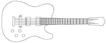 "Telecaster" type guitar body